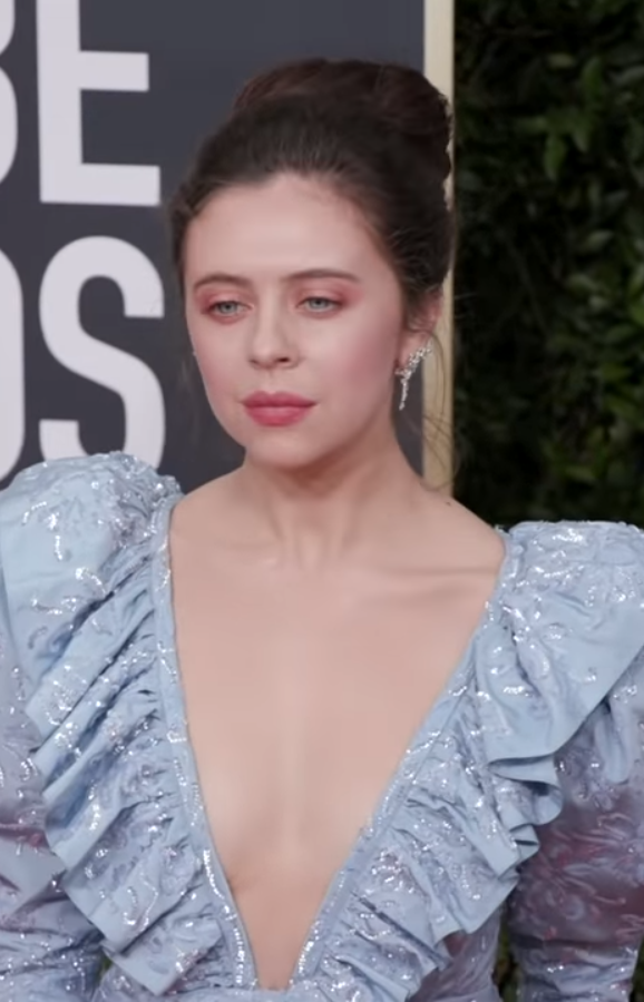 Bel Powley at Golden Globes Red Carpet 2020